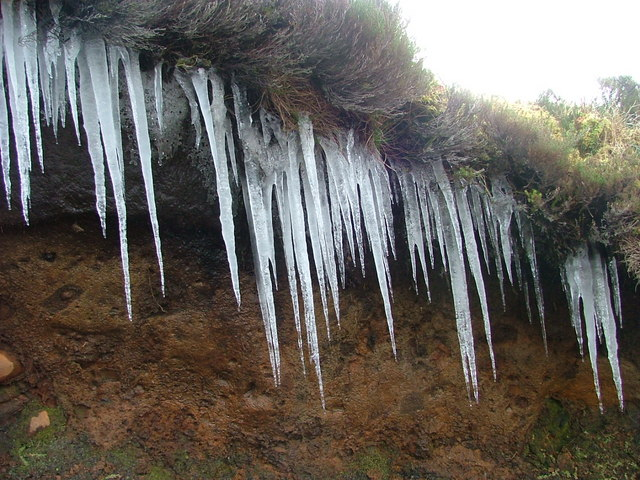 Icicles on a Peat Bank By the Uig/ Quiraing bealach.